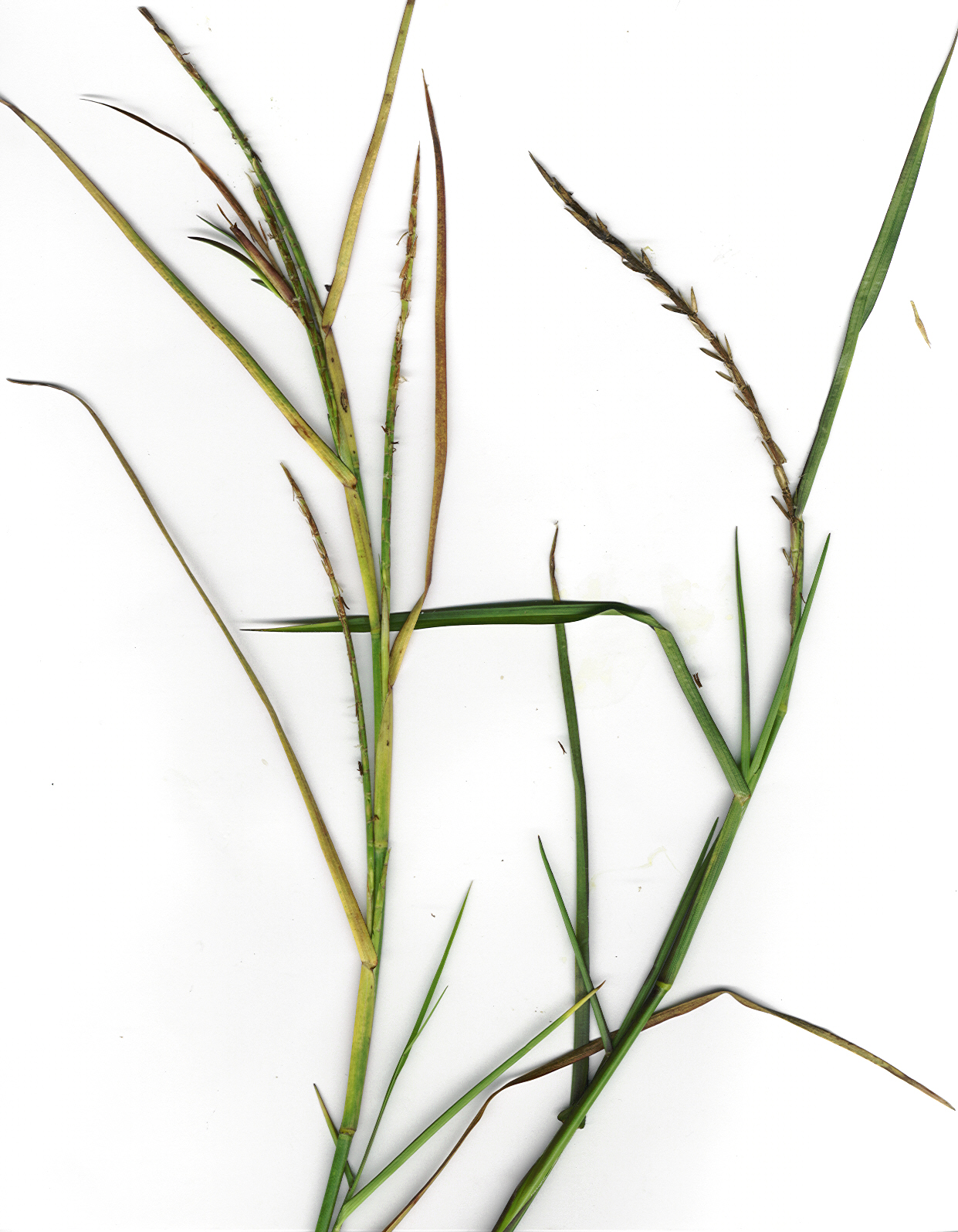 Hemarthria altissima (plant). Location: Maui, West Kuiaha Haiku